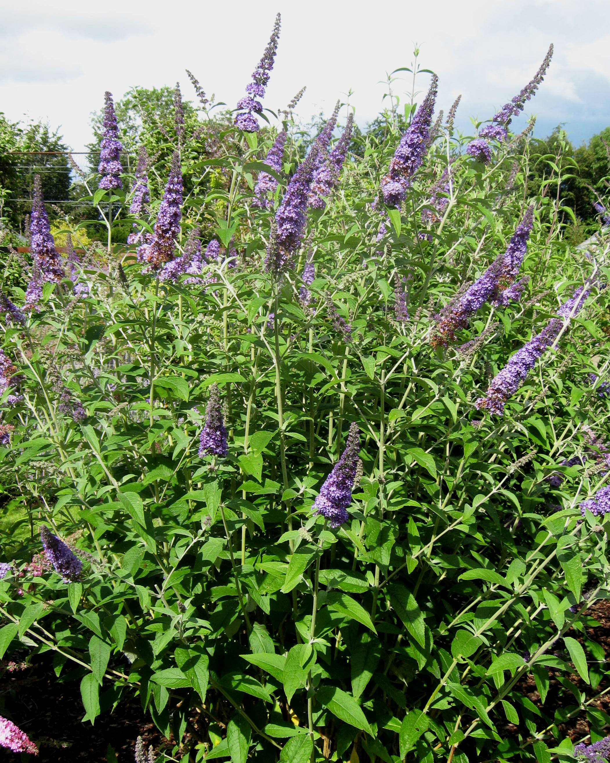 Photo of Buddleja 'Wind Tor' taken at Longstock Park Nursery, UK